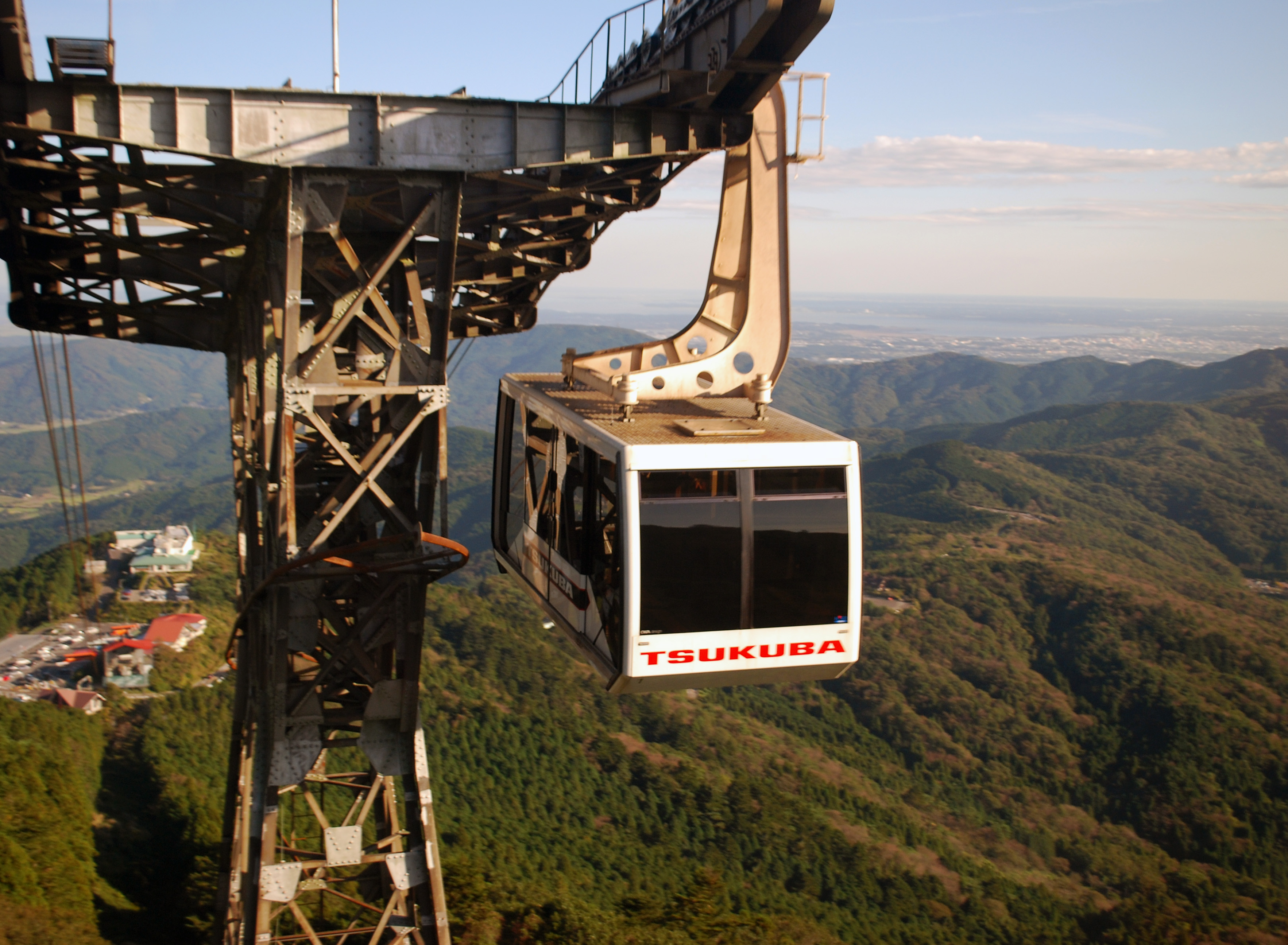 Kankō Railway: Ropeway on Mount Tsukuba - cub